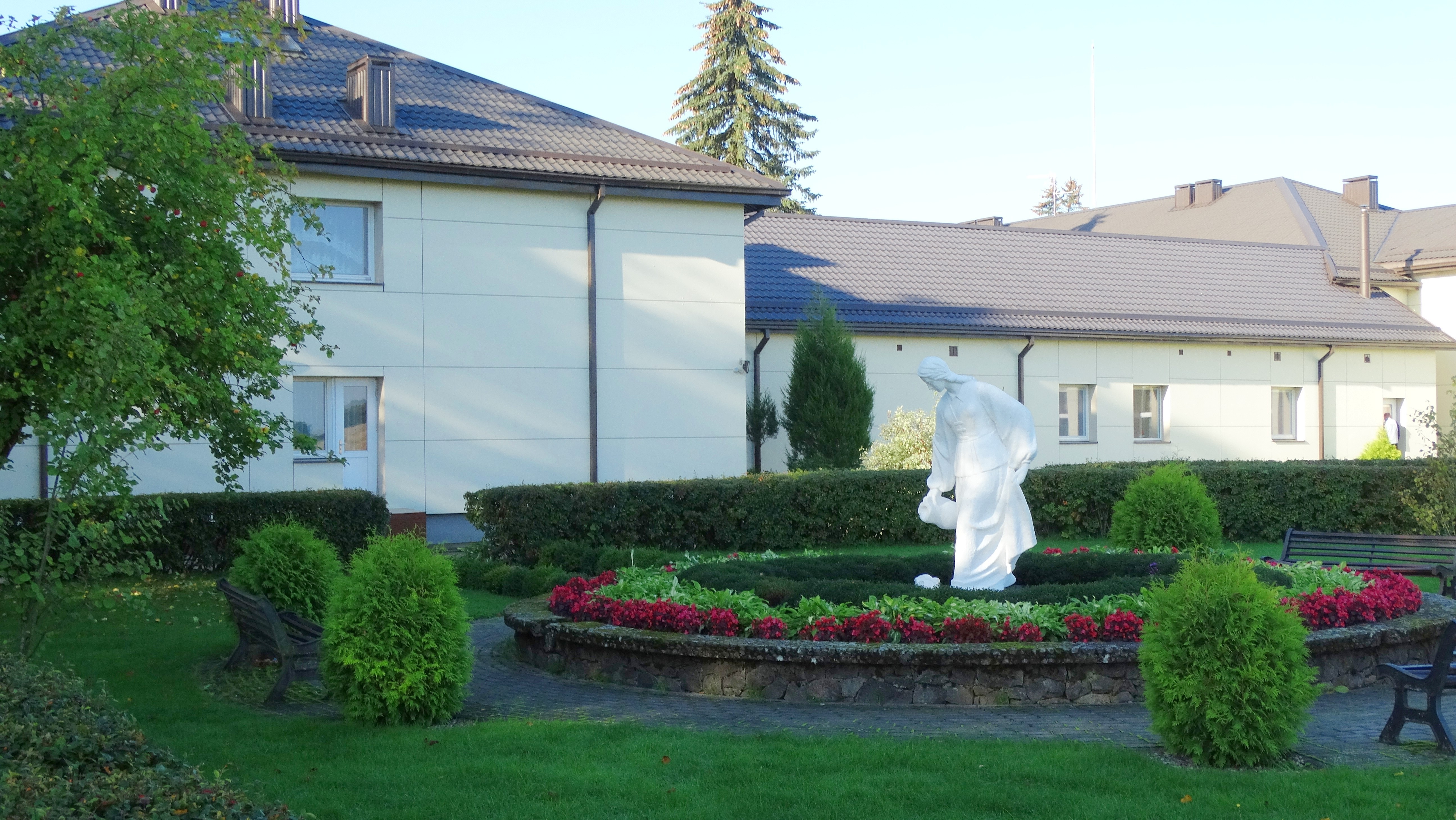 Jasiuliškis, Ukmergė district, Lithuania